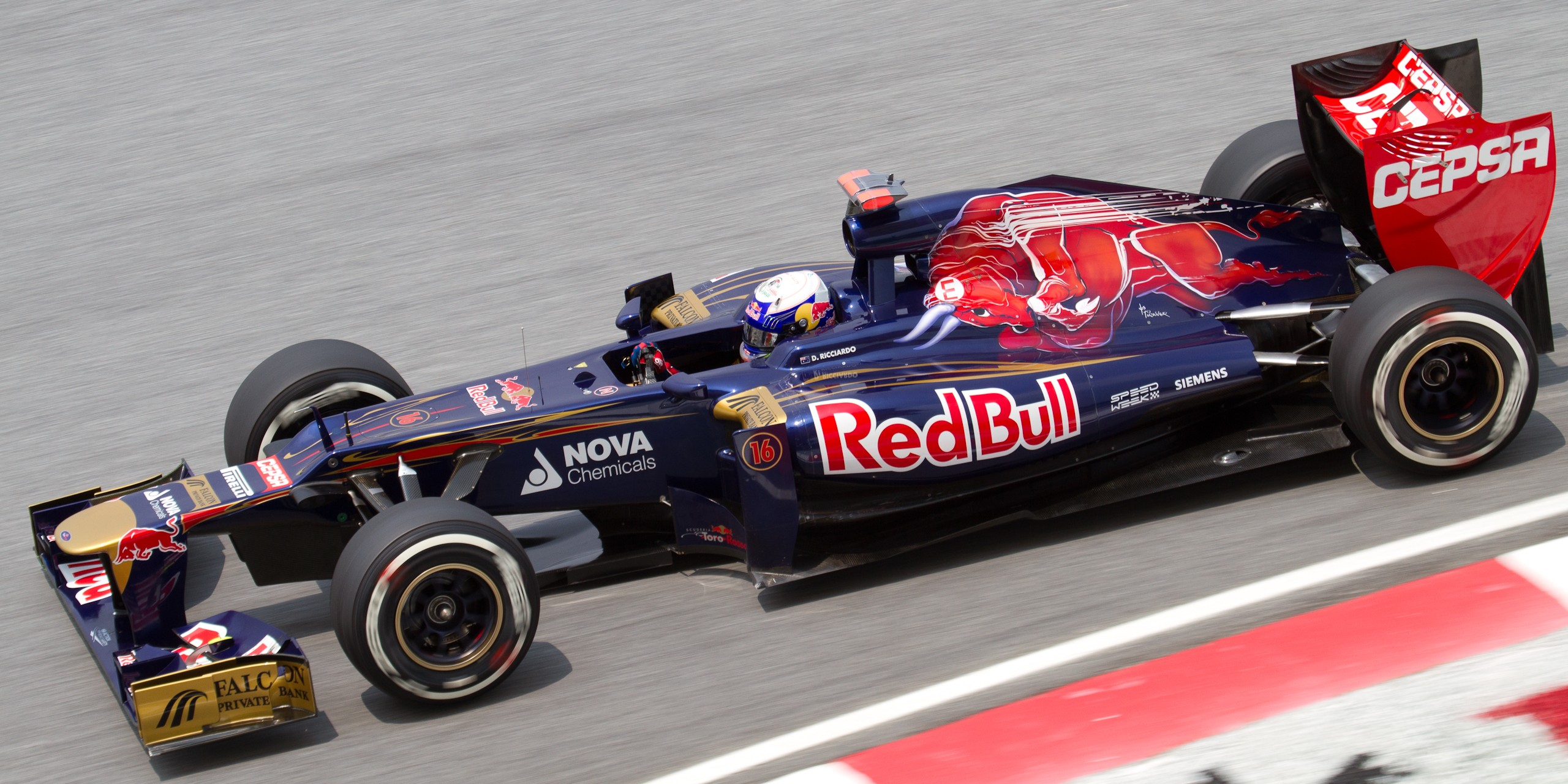 Formula One 2012 Rd.2 Malaysian GP: Daniel Ricciardo (Toro Rosso) during the second practice session on Friday.